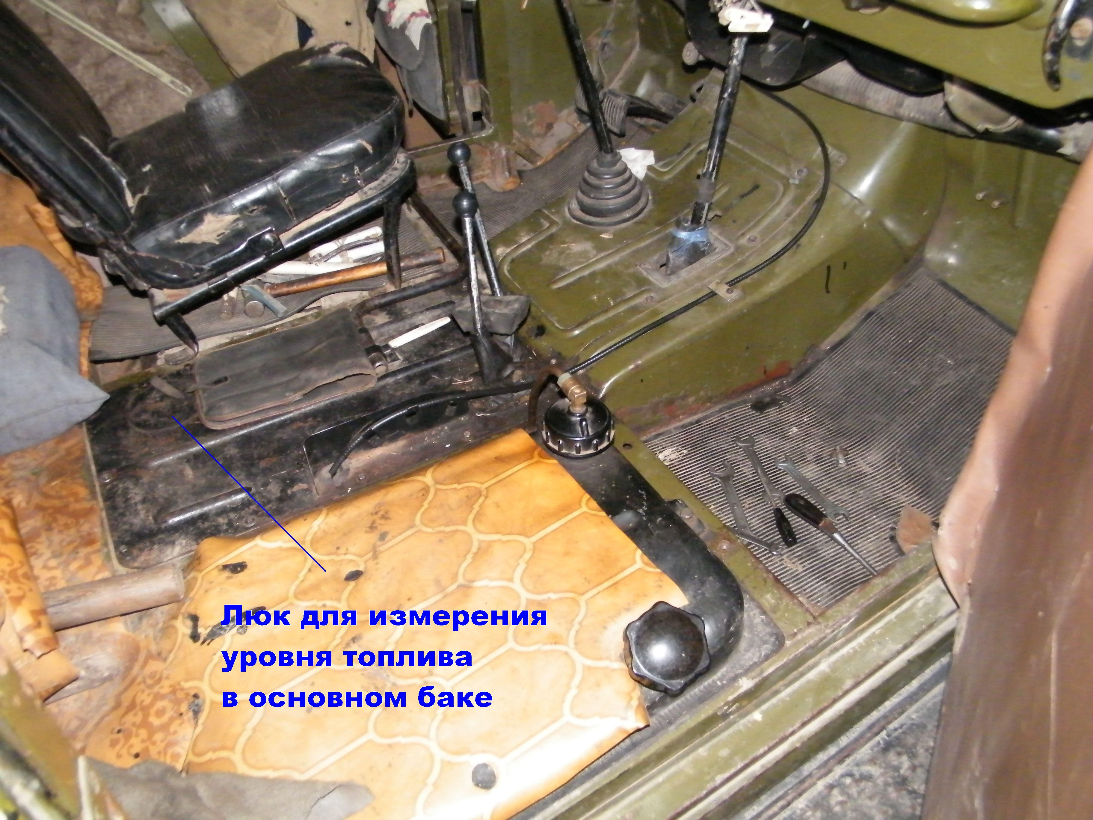 GAZ-69